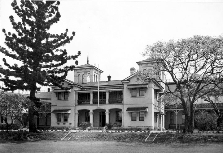 Yungaba Immigration Centre, Kangaroo Point. (120 Main Street, Kangaroo Point. Alternative names: "Yungaba" Immigration Depot; Immigration Barracks; No.6 Australian General Hospital.)